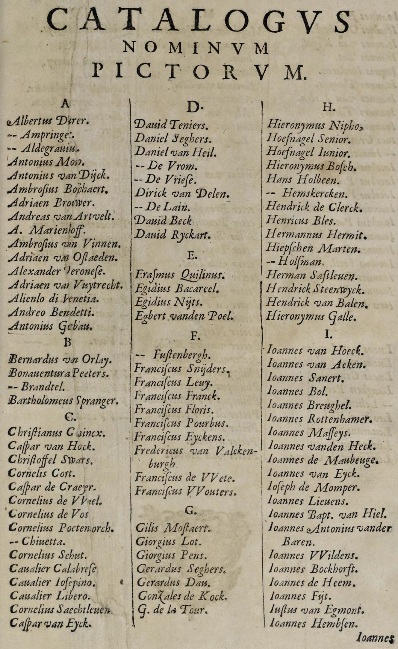 1673 copy of Theatrum Pictorium in possession of the Getty Research Institute, which has a bookplate of the book collector Sir Edward Marwood Elton, Baronet